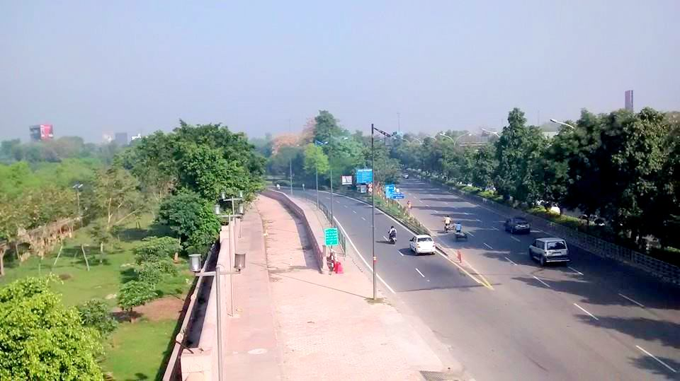 roads are wides in noida